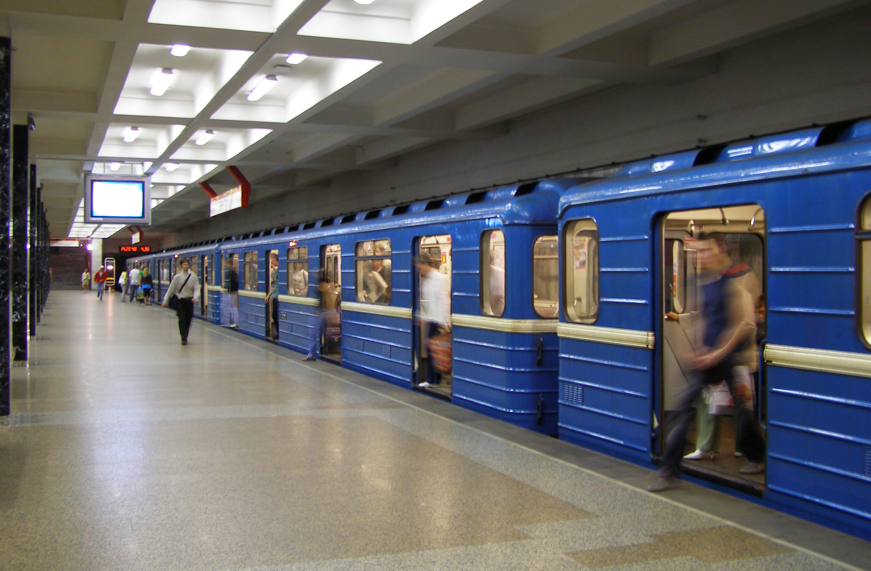 A train at the Partyzanskaja metro station